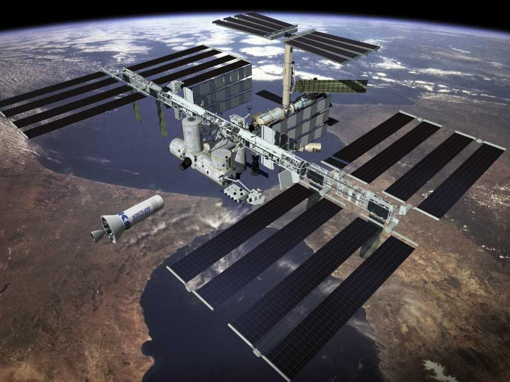 Computer generated image of Rocketplane-Kistler K-1 upper stage approaches the International Space Station for a COTS delivery.